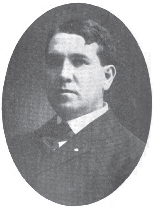 Ohio politician named Timothy T. Ansberry.